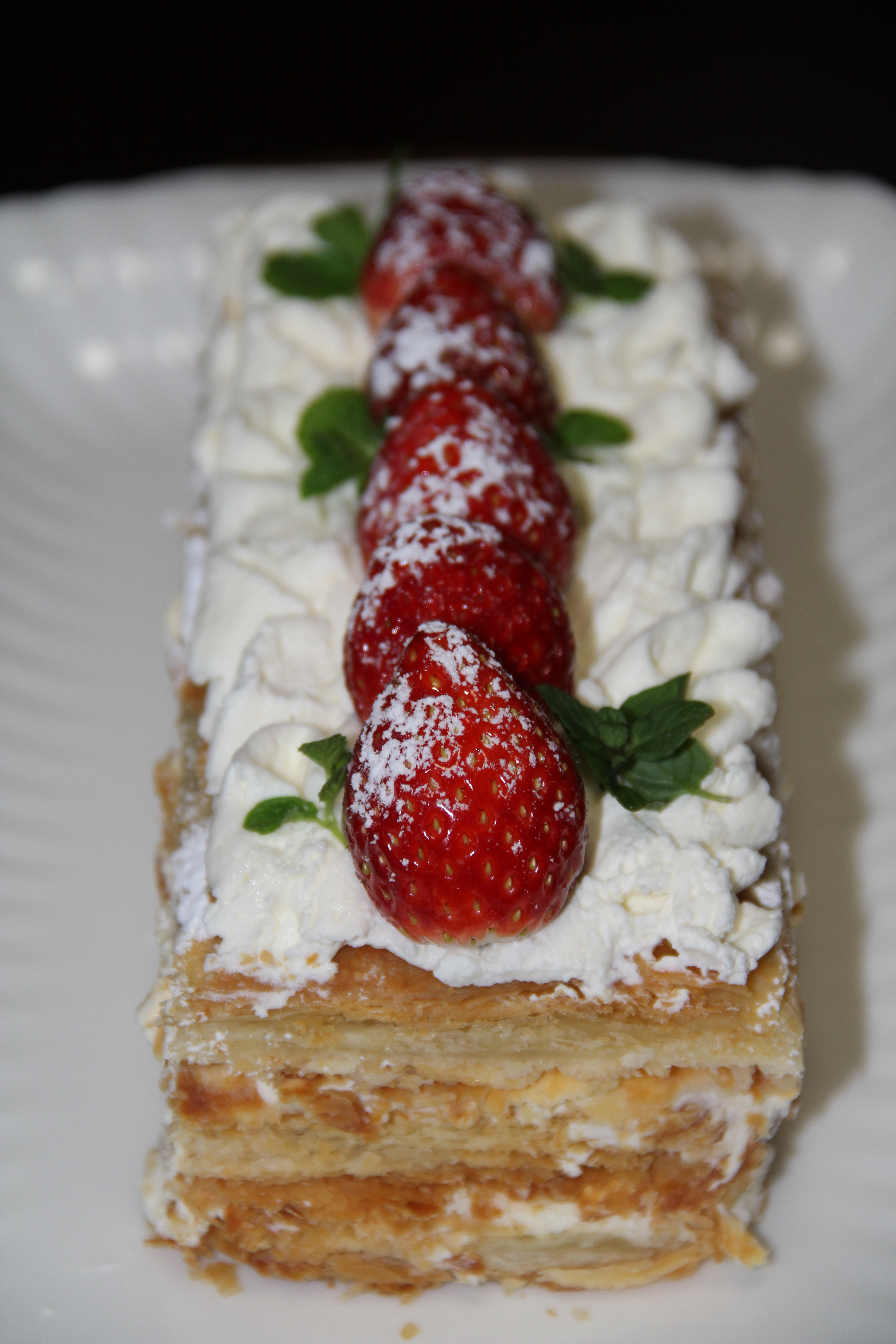 Making Mille-feuille